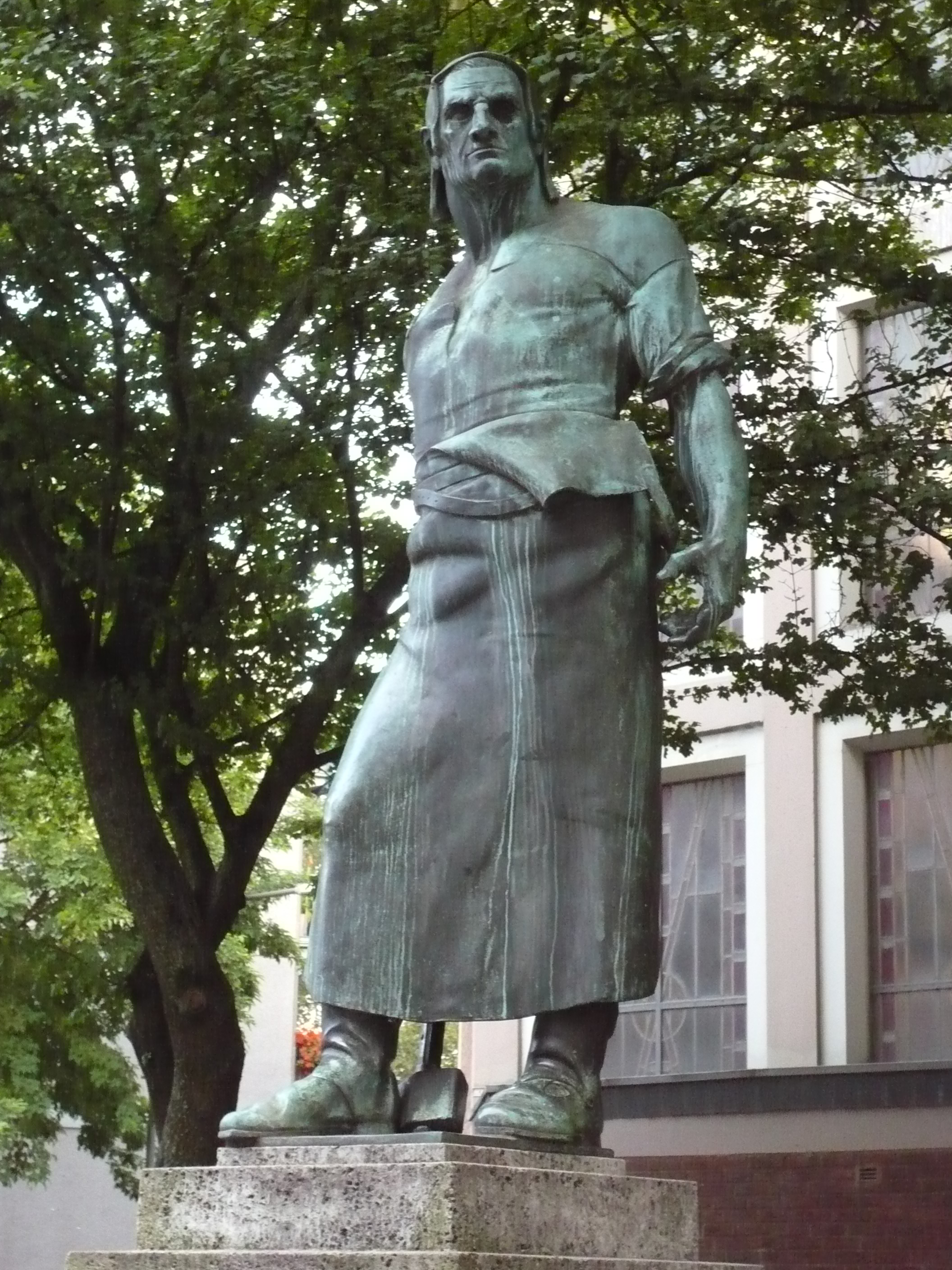 Sculpture on the top of the fountain Wehrhafter Schmied (“defensive blacksmith”) by Carl Burger (1909) in Aachen (North Rhine-Westphalia, Germany)